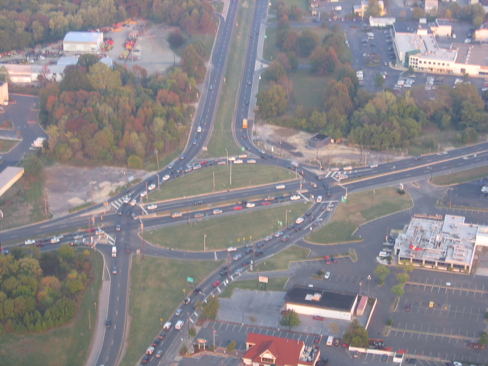 Marlton Circle, Evesham Township, New Jersey. The intersection of New Jersey State Highways 70 and 73. Taken from the West looking East at eight hundred feet above ground level from a Schweizer 269CB helicopter. Photographed on 17 October, 2007, at 5:43PM, EDT. Photographed by Nicholas Stolley.